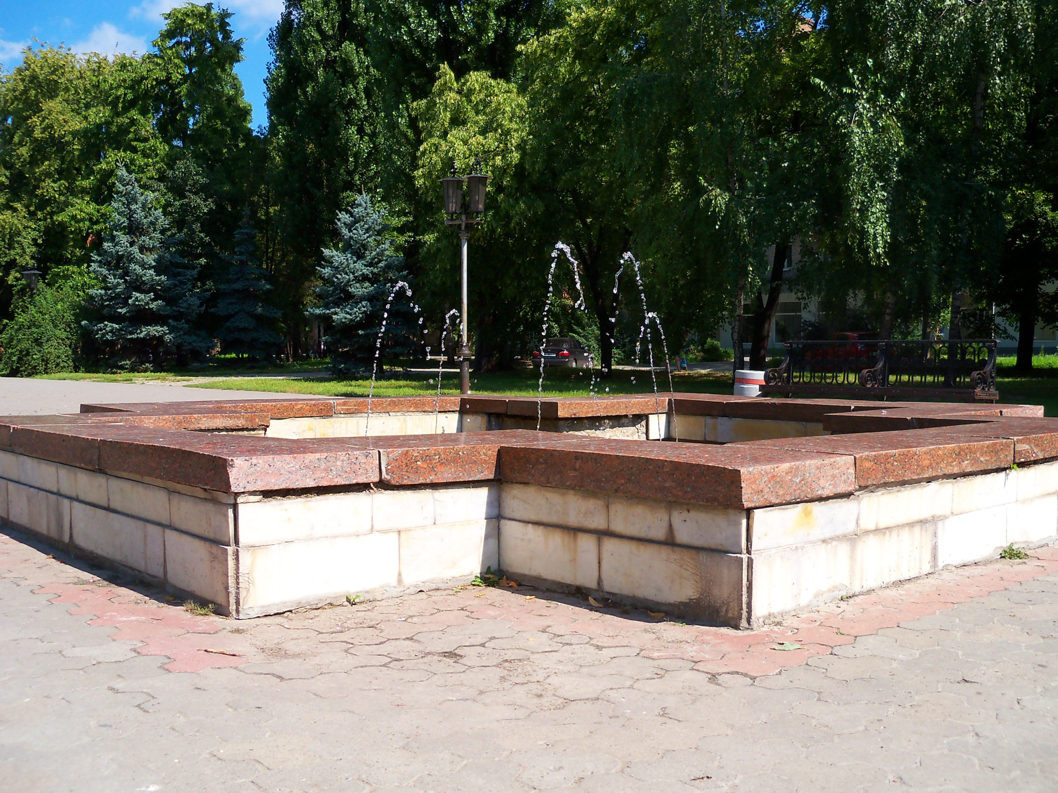 Fountain in Pushkina Square in Kremenchuk